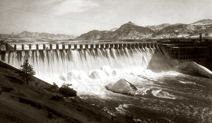 Looking roughly south at Holter Dam in 1918, shortly after its completion. Holter Dam is located in Lews & Clark County, Montana, United States. The dam powerhouse is on the right in the deep shadow. The metal structure holding the flashboards is visible at the crest of the dam. All the flashboards have been removed, allowing water to overflow the dam.